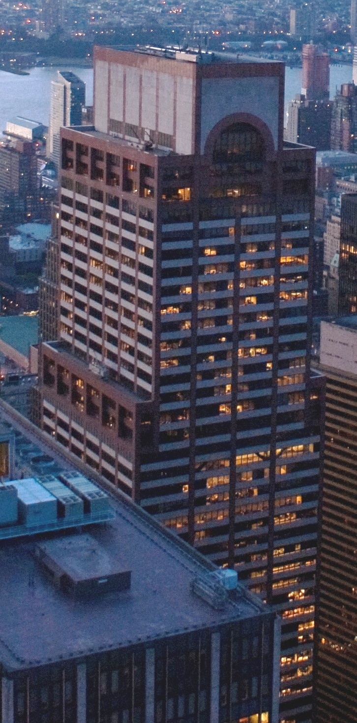 AXA Center viewed from top of GE Building.